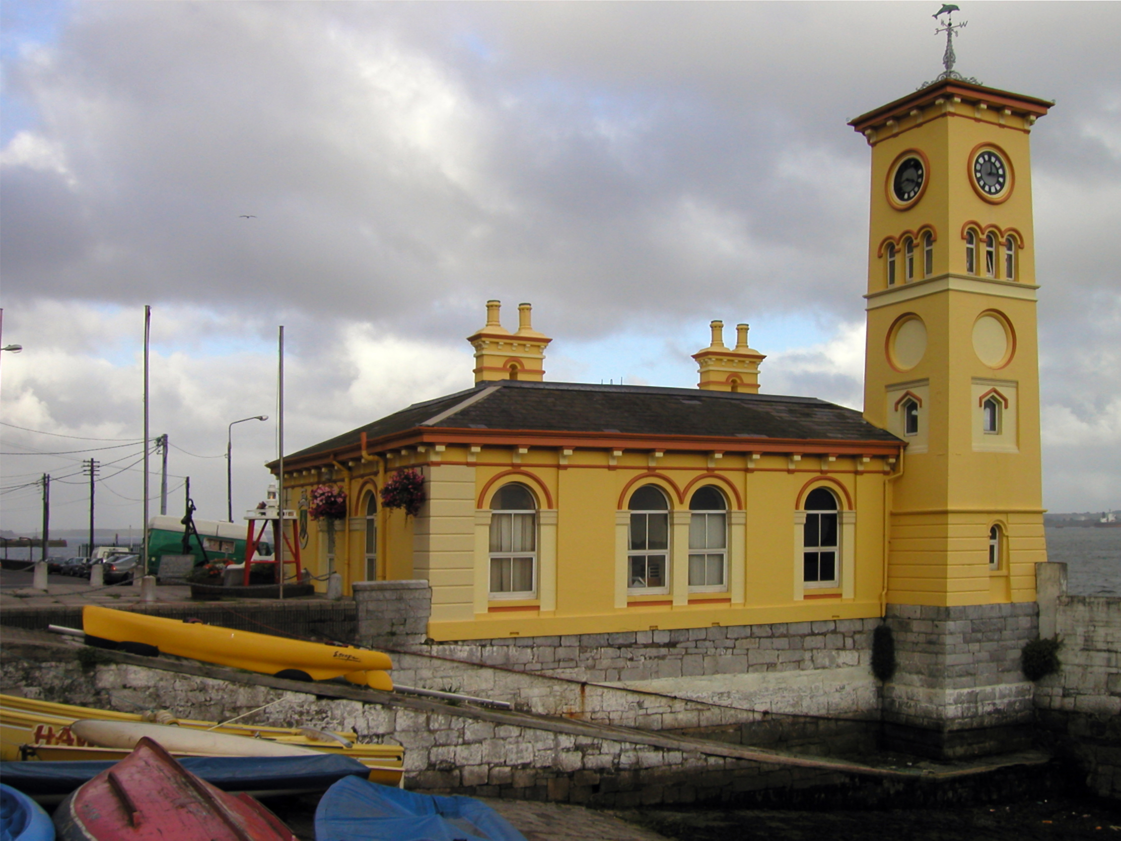 Cobh Harbour, Ireland